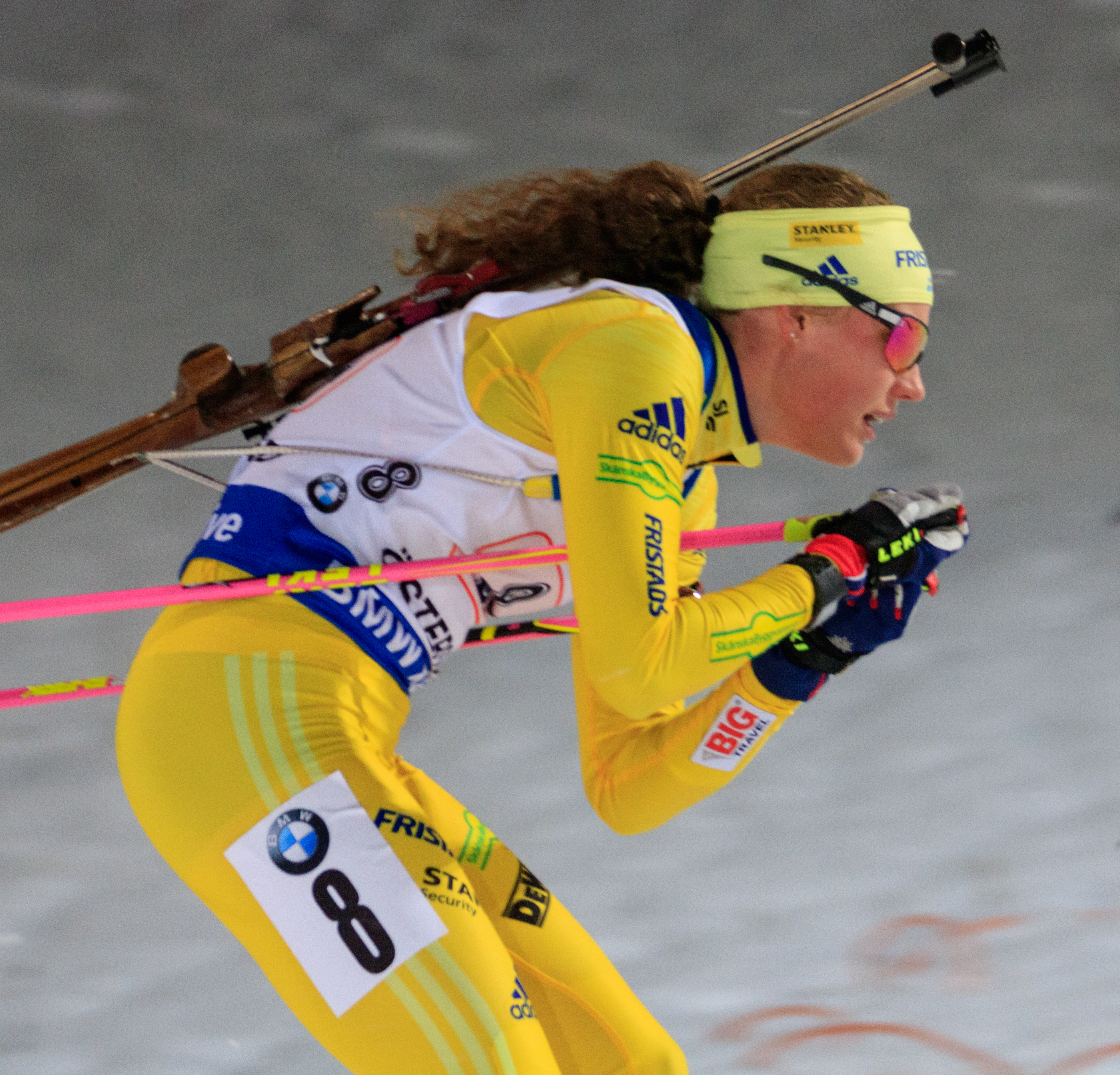 Swedish biahtlet Hanna Öberg in Östersund